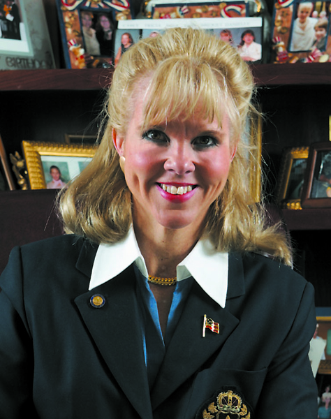 Portrait of Pennsylvania State Senator Jane Orie.